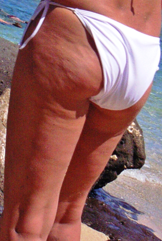 Larger scale uneveness of the skin of a young woman.